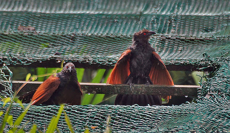 Greater Coucal Centropus sinensis in Kolkata, West Bengal, India.